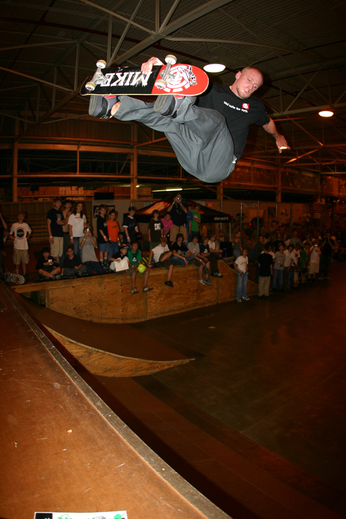 Mike Vallely performing a head-high frontside air at a demo at Doc*36 Skatepark in Jackson, Mississippi. Photo taken by myself, Tate Nations. More photos from this demo can be found here